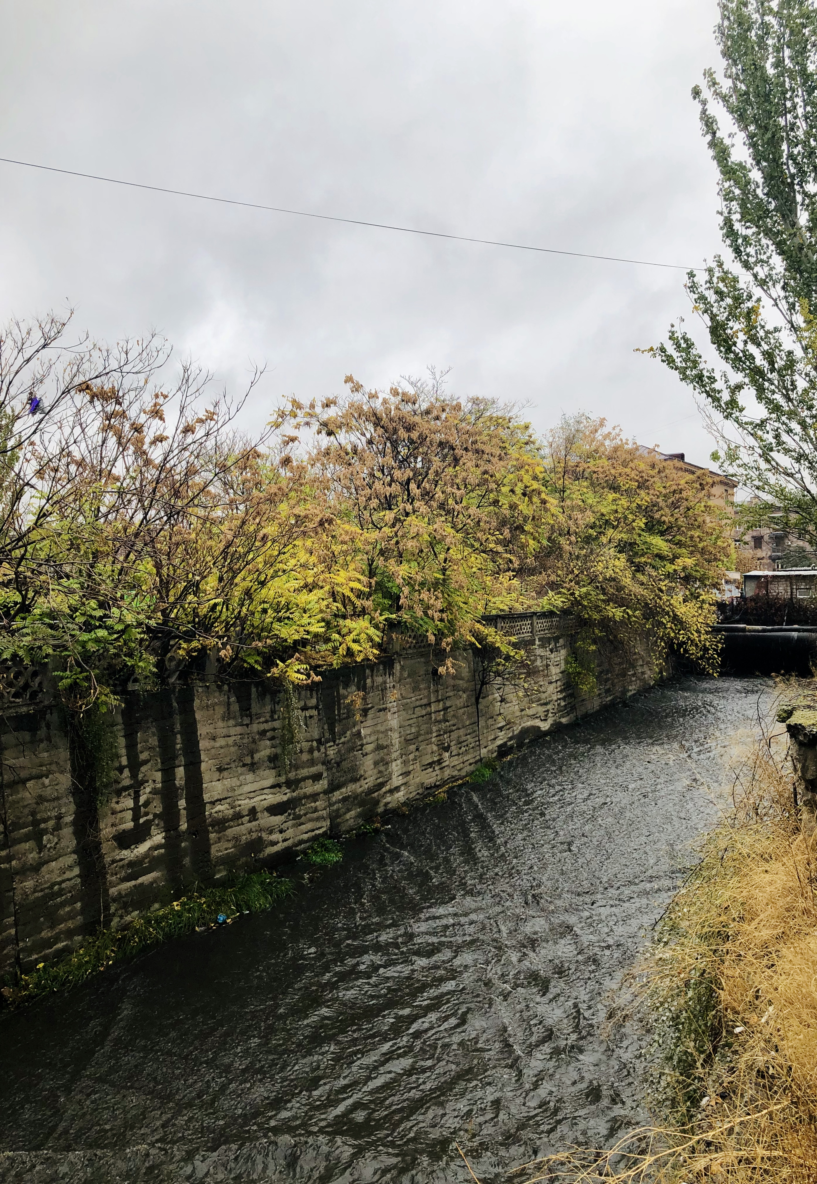 Getar River, Verin Shengavit, Yerevan